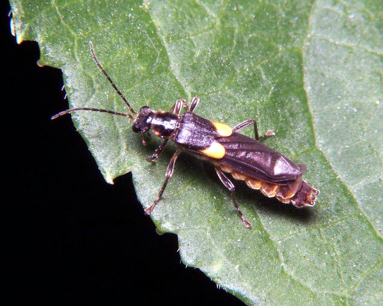 jpeg image, Soldier beetle Trypherus sp.. Photographed at West Chicago Prairie, DuPage County, Illinois.